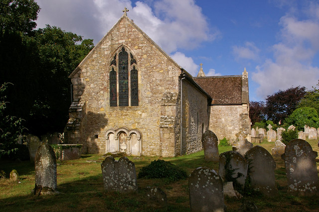 St Edmund's parish church, Wootton Bridge, Isle of Wight